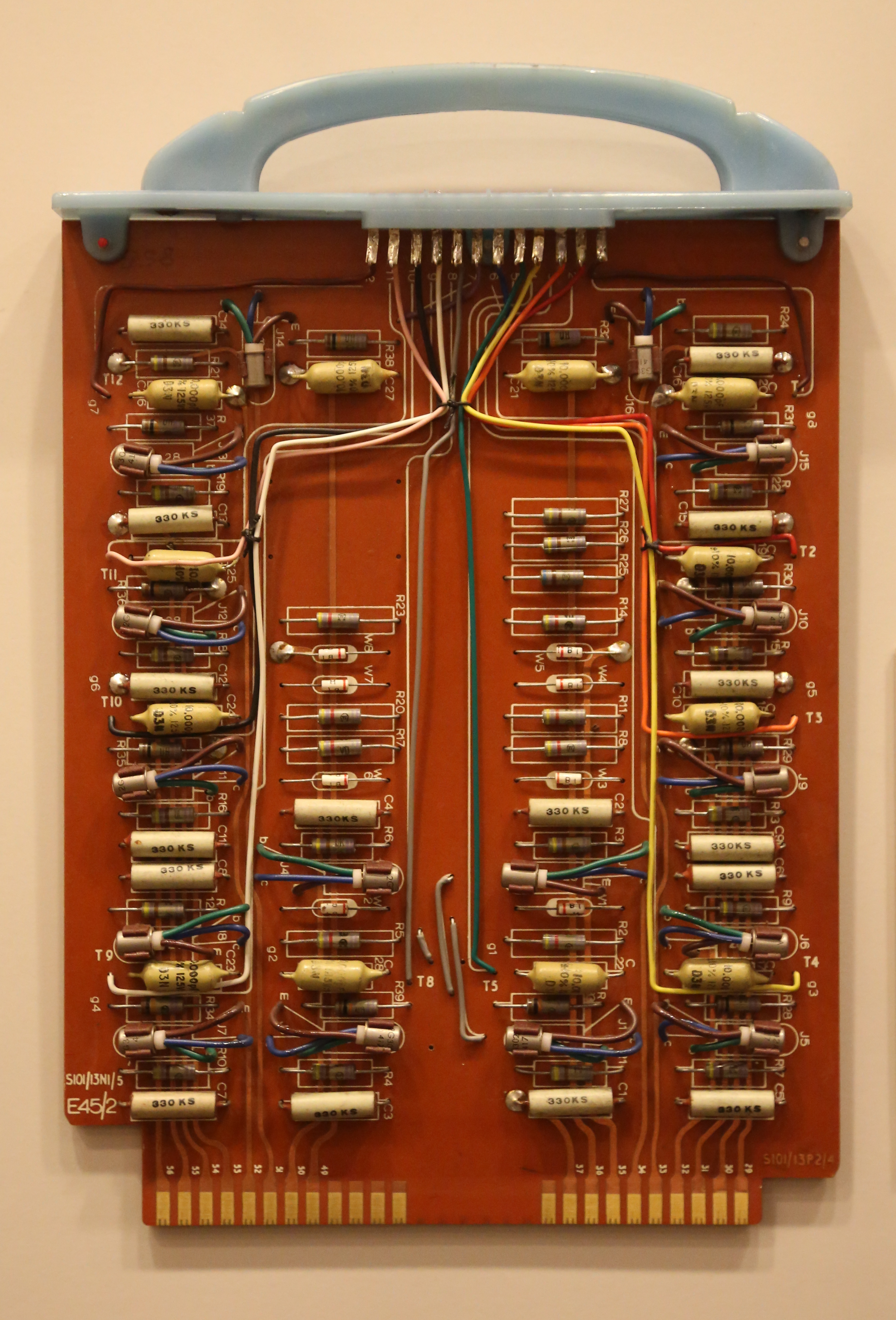 Photo of a LEO III computer circuit board